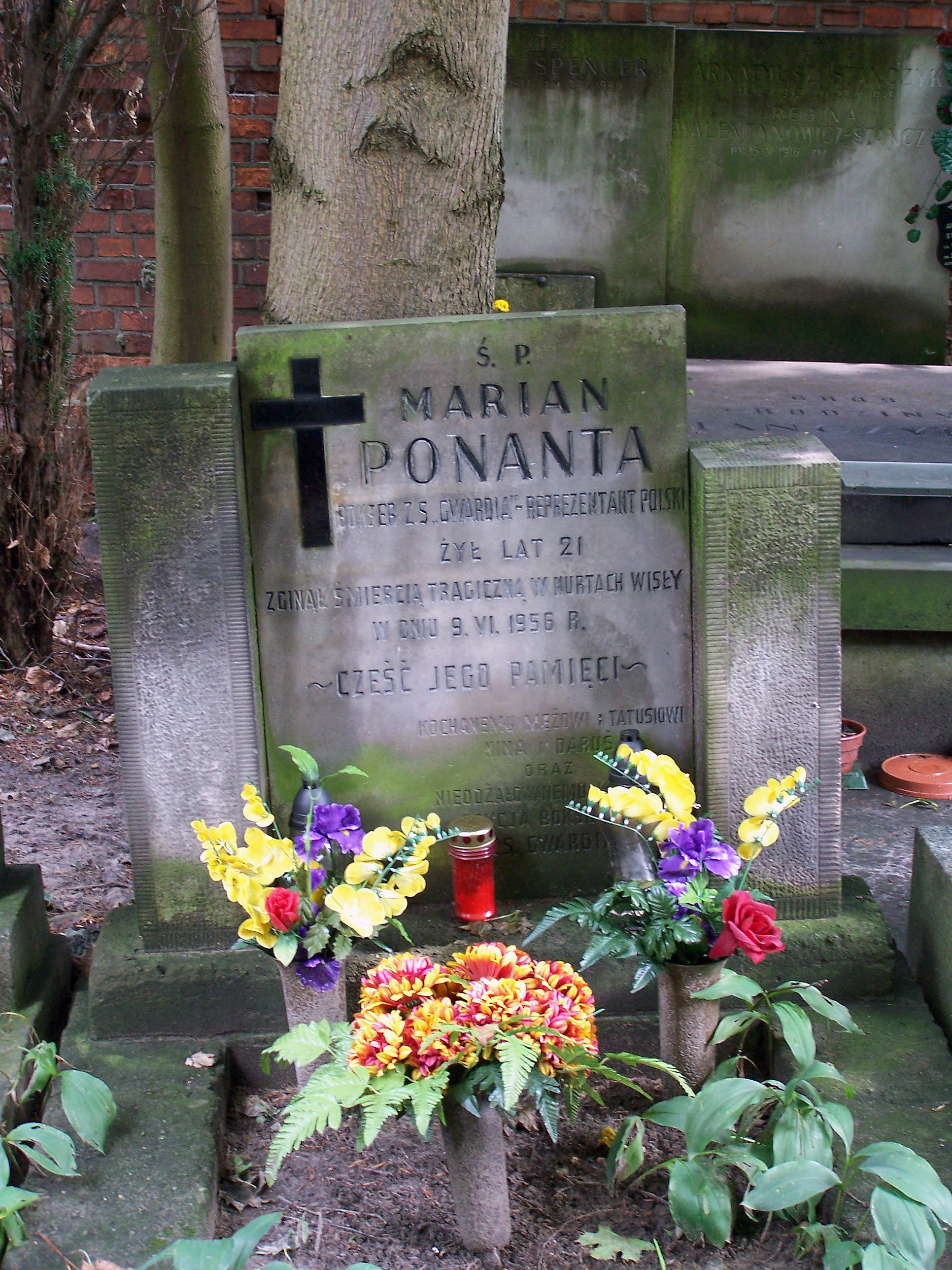 Grave of boxer Marian Ponanta at Powązki Cemetery in Warsaw, Poland